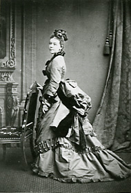 Amelie Bates (1846-1889), dauther of Arthur and wife of James